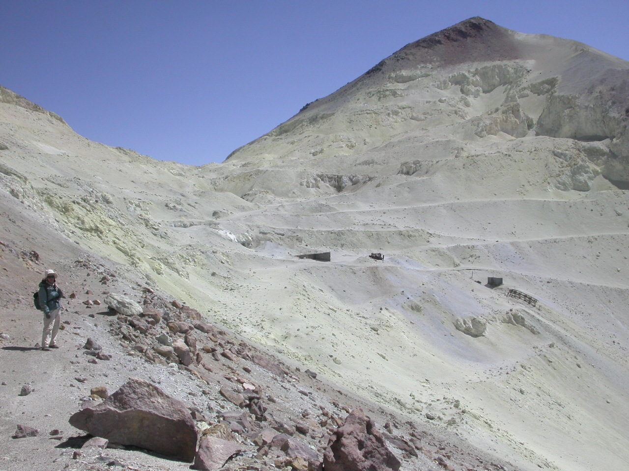 Abandoned sulfur workings near the summit of Aucanquilcha, Chile.